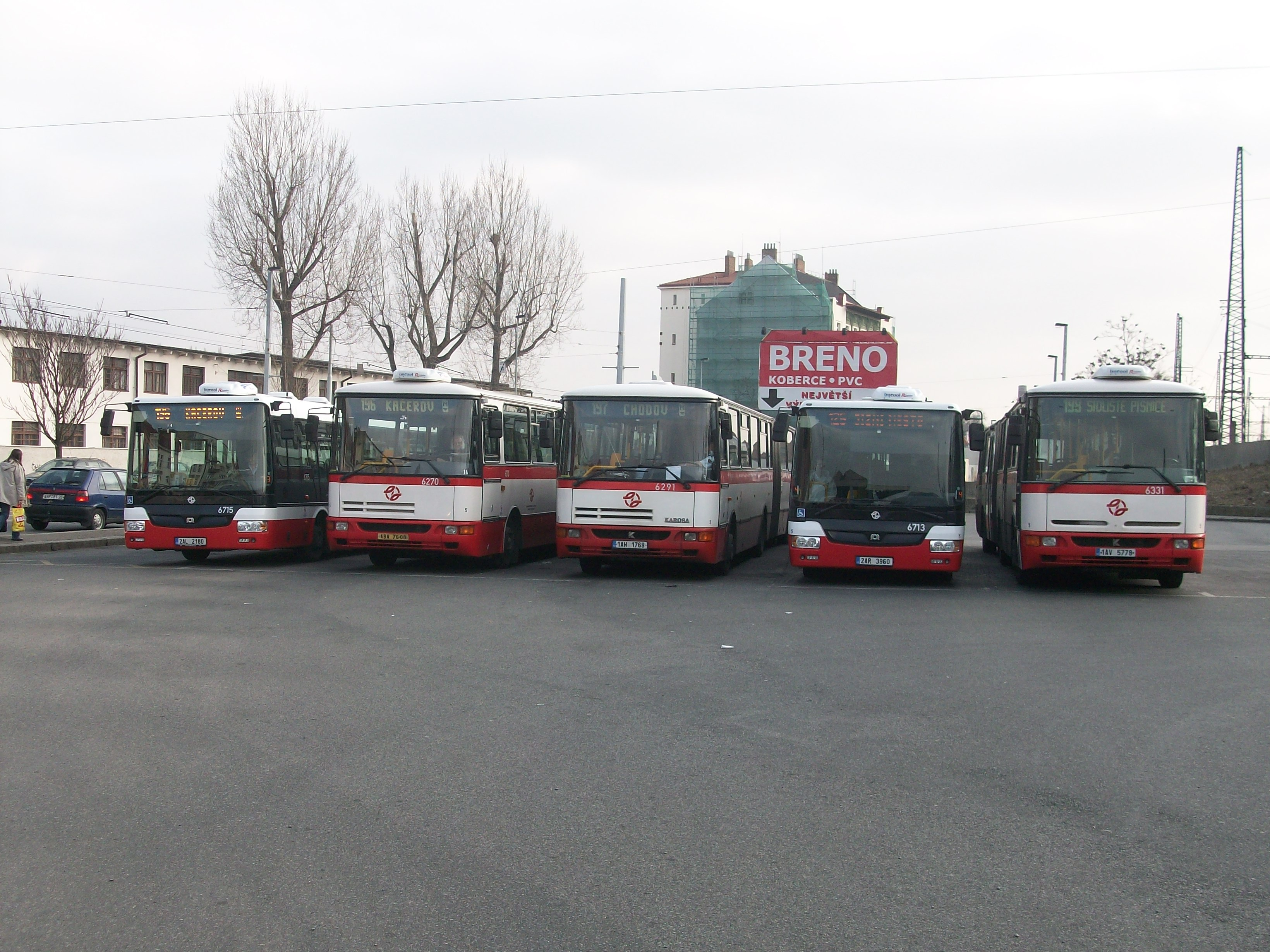 Karosa B 941 & SOR NB 18 in Prague